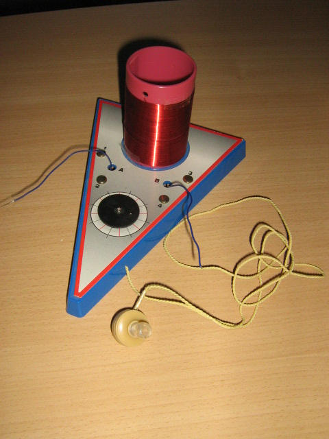 Modern crystal radio using a OA85 diode and piezoelectric earphone, receiving the 520 - 1620 kHz AM broadcast band. The two black wires (A and B) were the antenna and ground wires, one attached to a long wire antenna and the other to a water pipe or a stake driven into the ground to provide a return path for the antenna current to Earth.